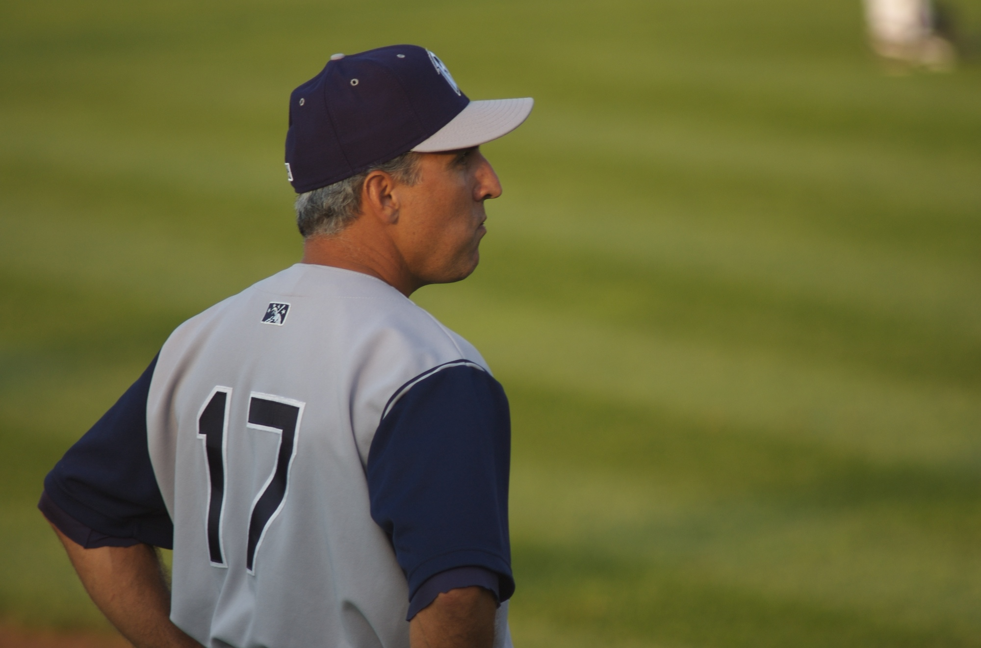 Fort Wayne @ Lansing 08162007